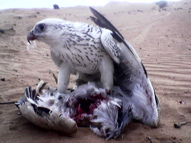 Some Falco falcon with prey. Possibly a hybrid bred for hunting. Dysmorodrepanis 04:04, 27 May 2008 (UTC)